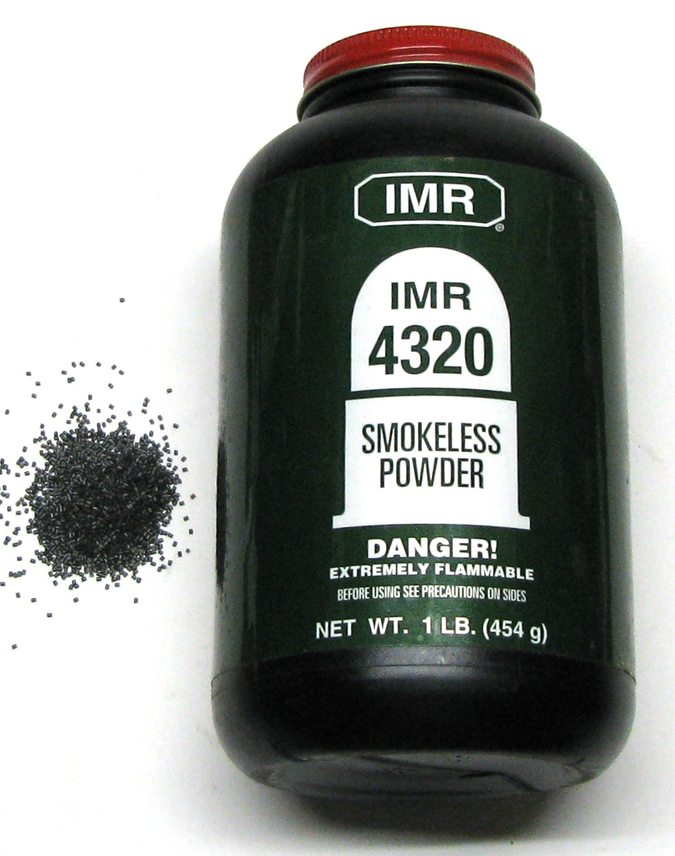 IMR 4320 smokeless powder for firearms handloading